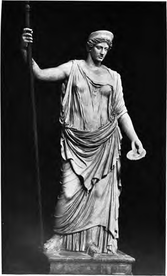 Author: Furtwängler, Adolf, 1853-1907. [from old catalog]; Urlichs, Heinrich Ludwig, 1864- [from old catalog] joint author Subject: Sculpture, Greek. [from old catalog]; Sculpture, Roman. [from old catalog] Publisher: München, F. Bruckmann a. g Year: 1904 Possible copyright status: NOT_IN_COPYRIGHT Language: German Digitizing sponsor: Google Book contributor: Harvard University Collection: americana